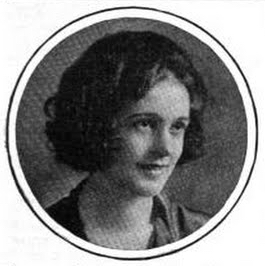 Suzanne Caubet, from a 1920 publication. A young white woman with chin-length curly hair, smiling.